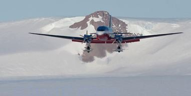 Troll Airfield Basler landing at Norway's second longest airstrip 3300 mtr